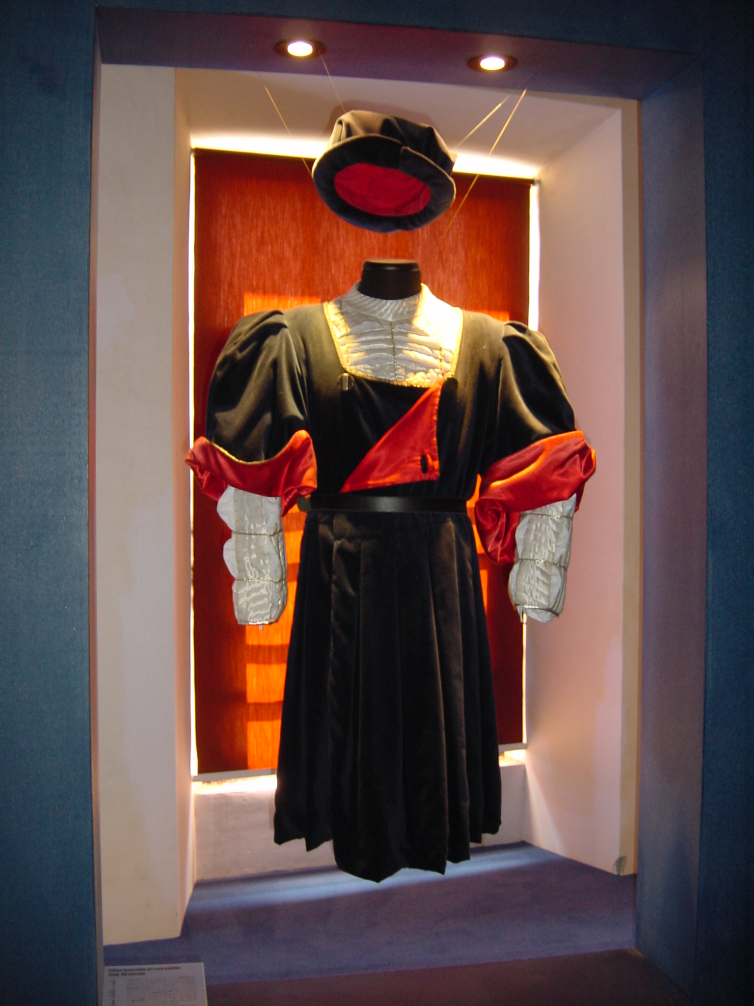 Museum of Costume Farnese 1 room